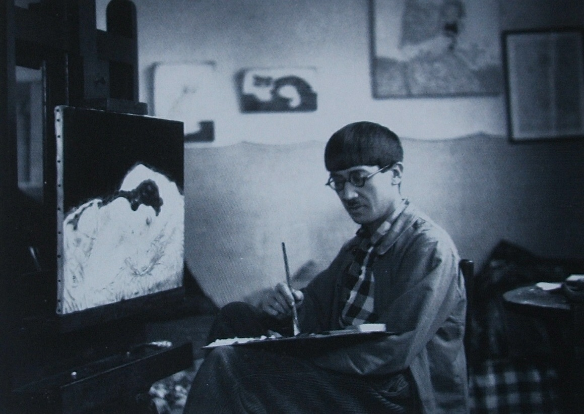 Tsuguharu Foujita (1886–1956)